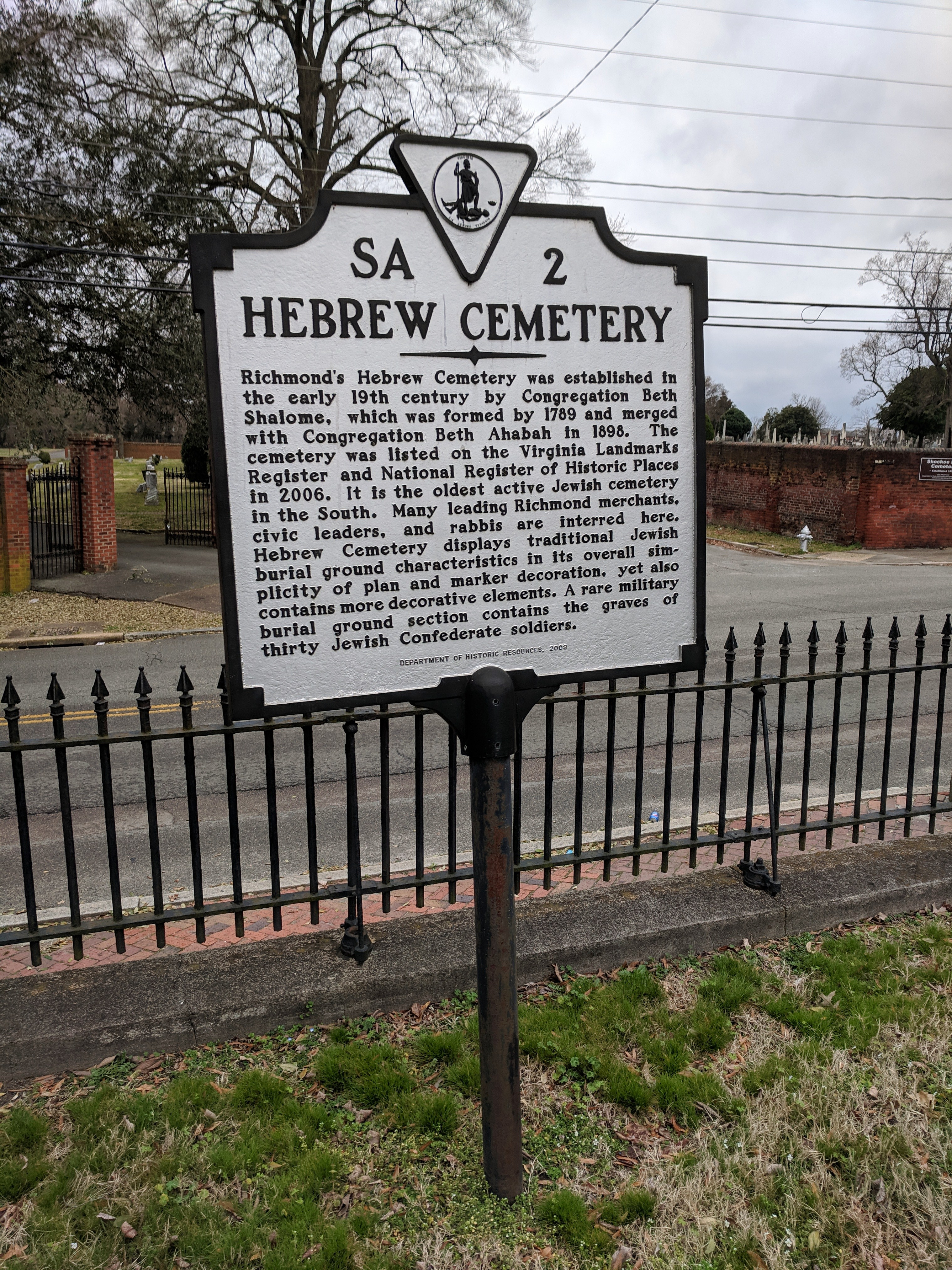 Cemetery for Hebrew Confederate Soldiers at Hebrew Cemetery in Richmond, Virginia.